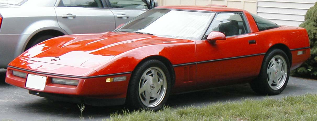 1984-1996 Chevrolet Corvette C4 photographed in USA.